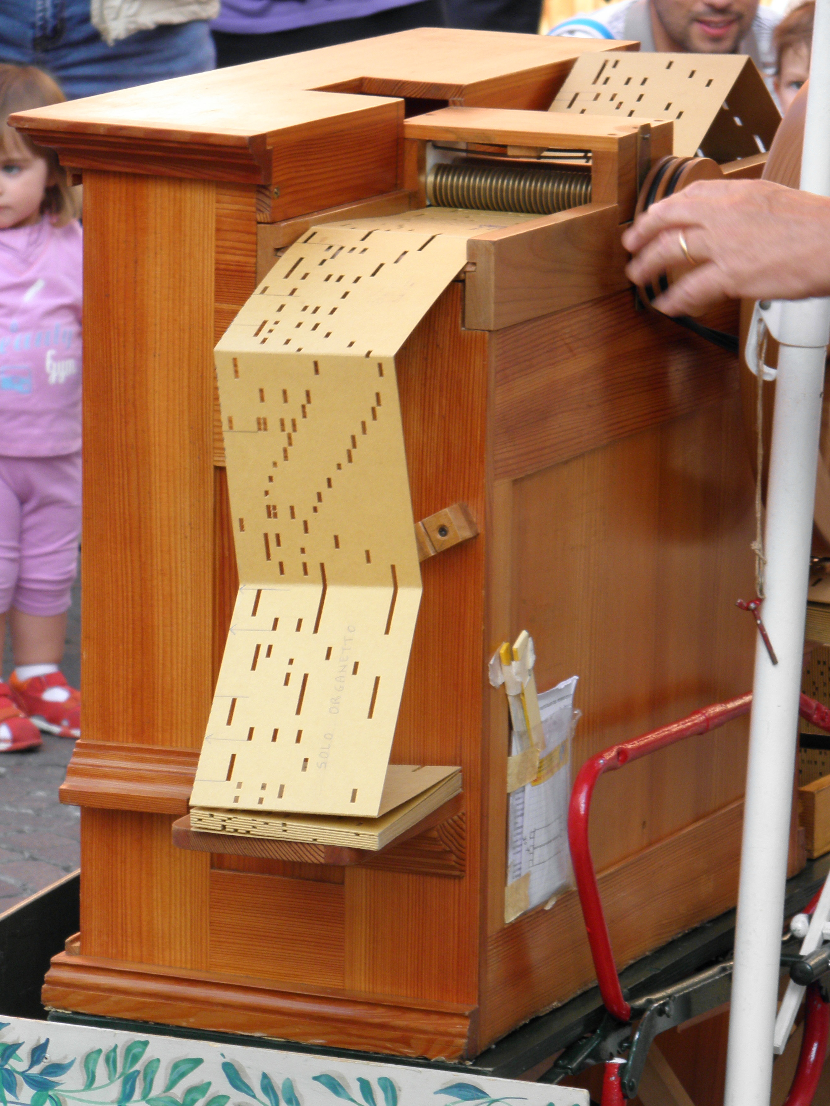 Music roll and a barrel organ in Rovigo.